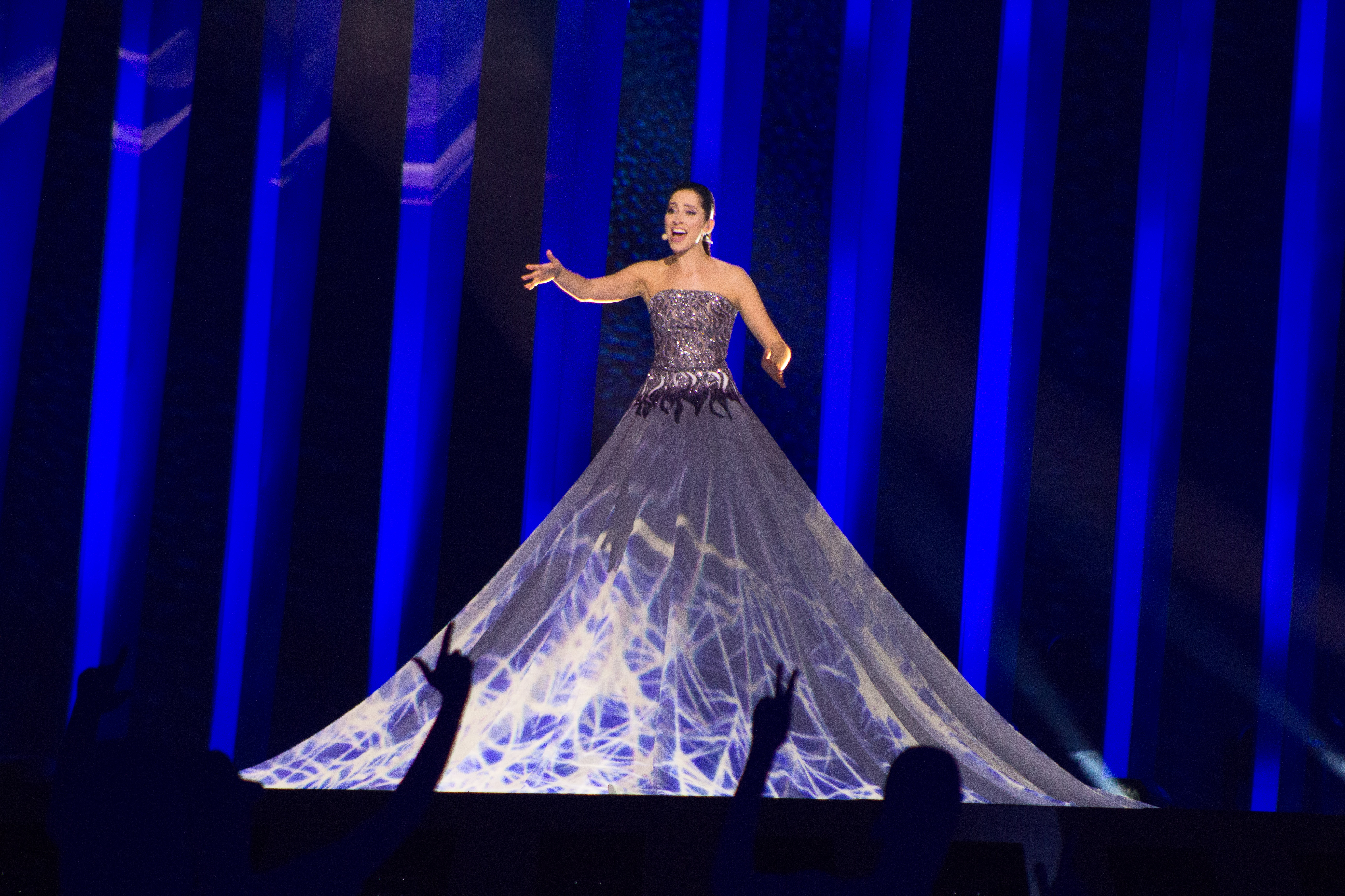 Elina Nechayeva representing Estonia with the song "La forza" during a rehearsal before the first semi final of the Eurovision Song Contest 2018 in Lisbon.